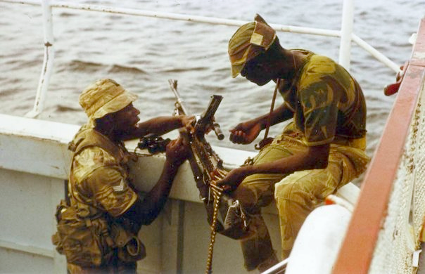 Soldiers of the Rhodesian African Rifles, setting up a LMG on the Sea Lion. December 1976, Lake Kariba, photograph by Graham Wallace